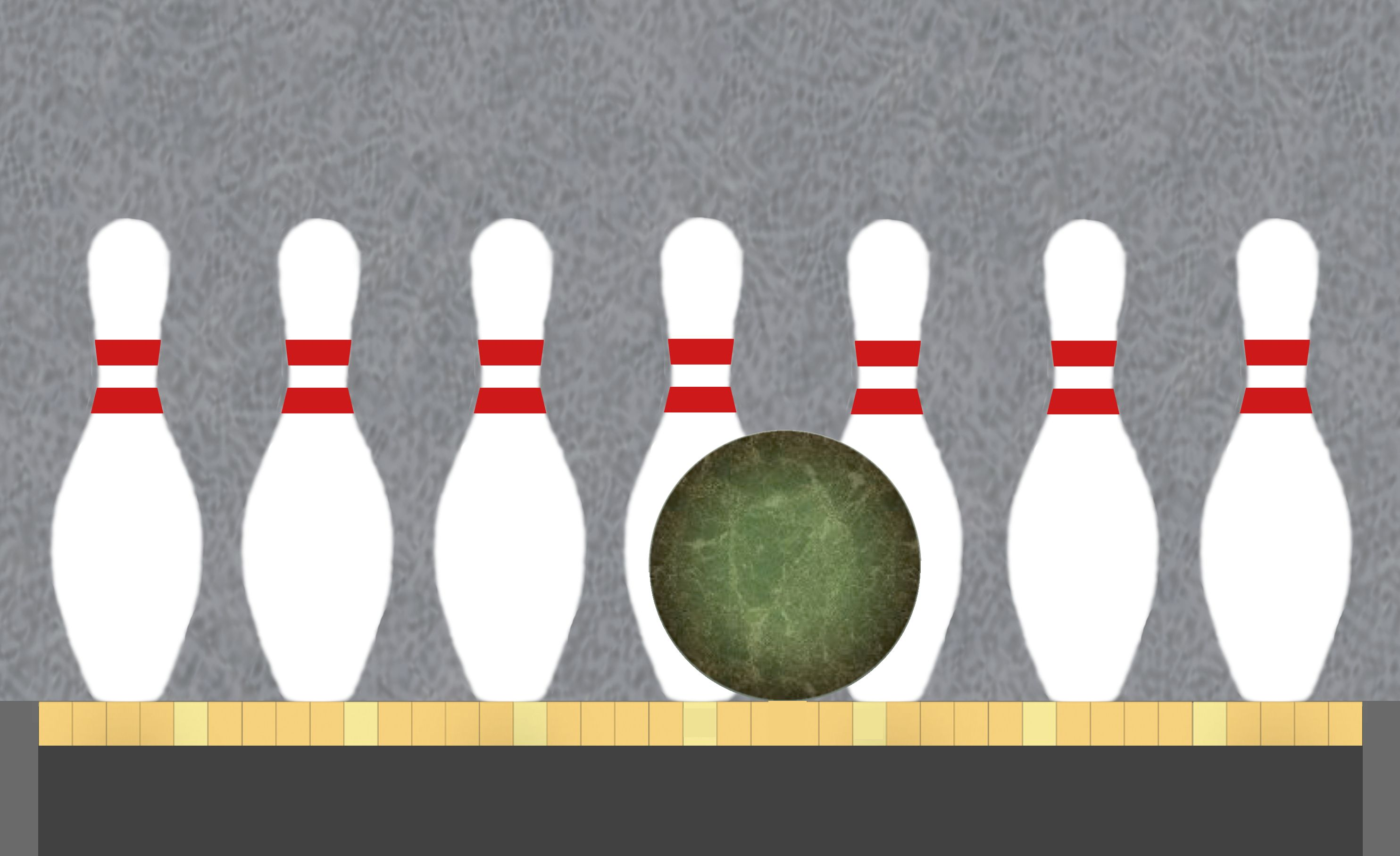 Front view of bowling pins and bowling ball in a position found optimal for achieving strikes (assumed right-handed release).